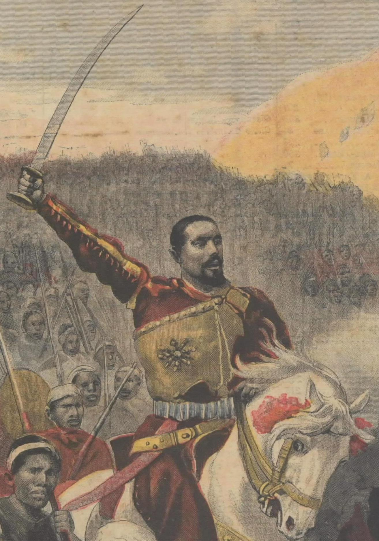 Ras Mekonnen at the Battle of Amba Alage - detail